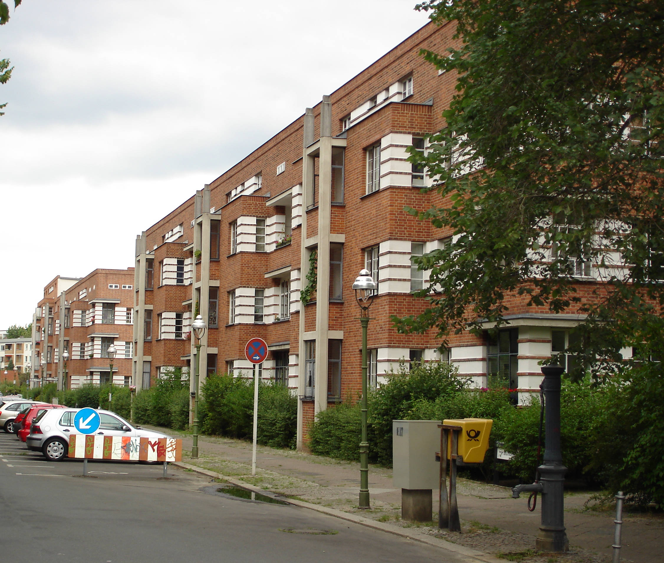 Schillerpark Housing Estate in Berlin-Wedding; view of the buildings Bristolstraße 11, 9, 7, 5, 3, and 1 from Bristolstraße at the corner of Oxforder Straße